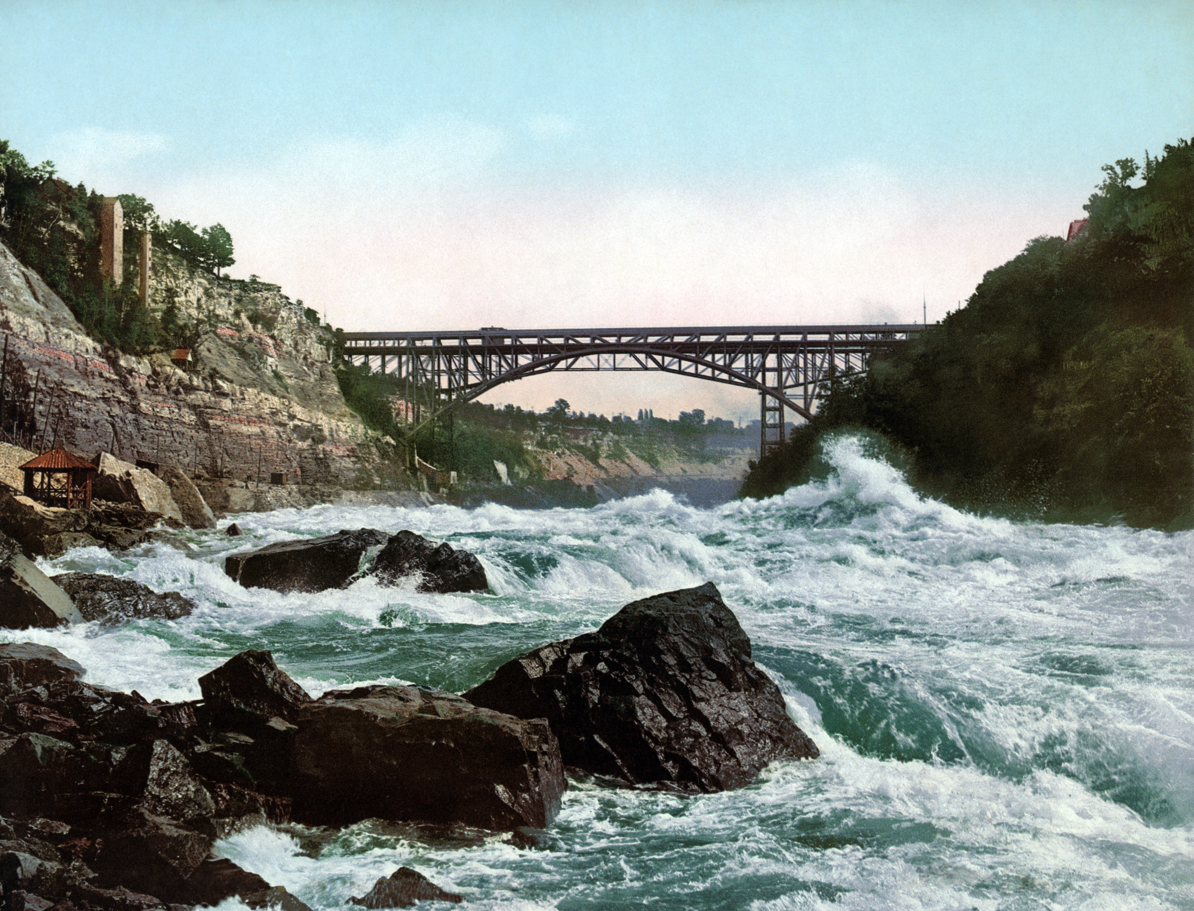 Whirlpool Rapids Bridge and the Niagara River, New York (1900).